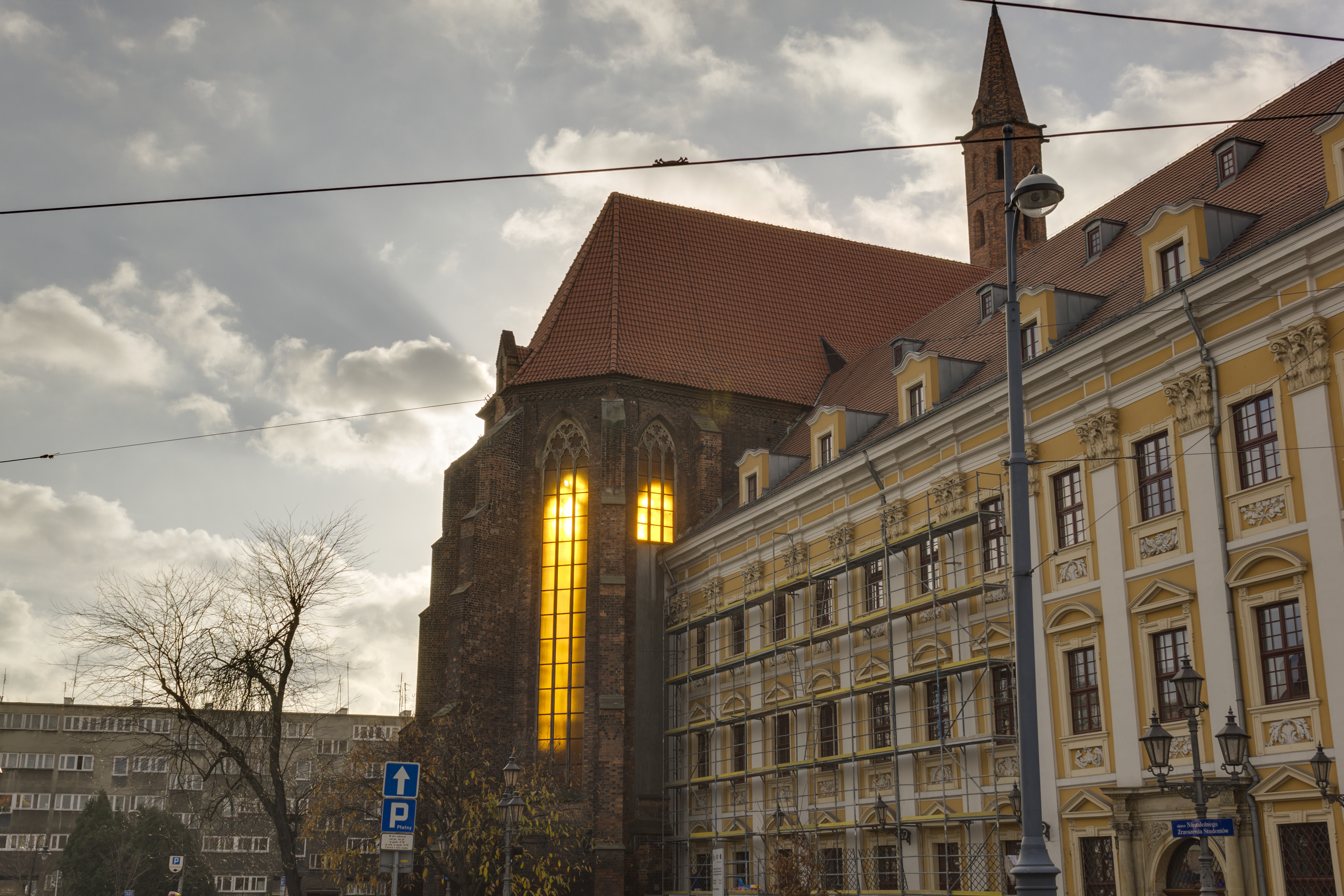 Church of St. Vincent, Wrocław